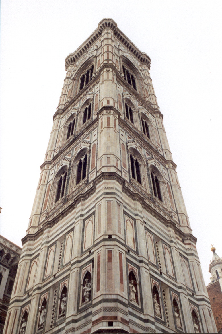 The Campanile photo shows the tower built by Giotto, picture in perspective .. see the lining of the tower. Various types of marble are applied to it, and the tower is 6 meters below the dome, built by Brunelleschi.